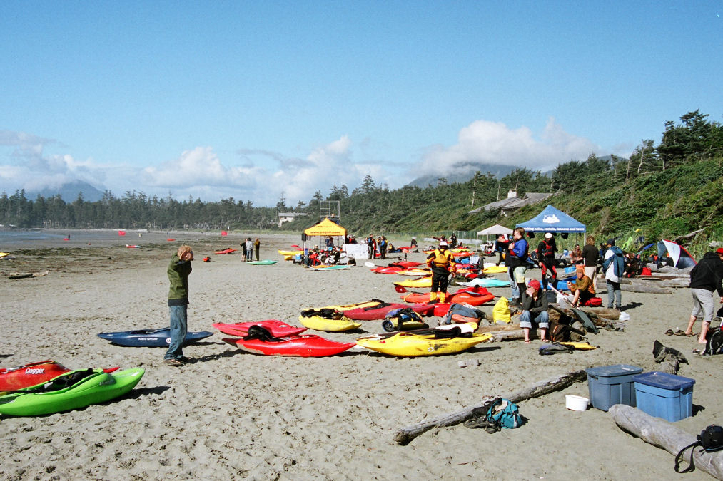 Kayak Surf Fest Tofino BC 2007. Numerous kayaks and participants, surfing, on beach, with wetsuits, drysuits, and paddles.